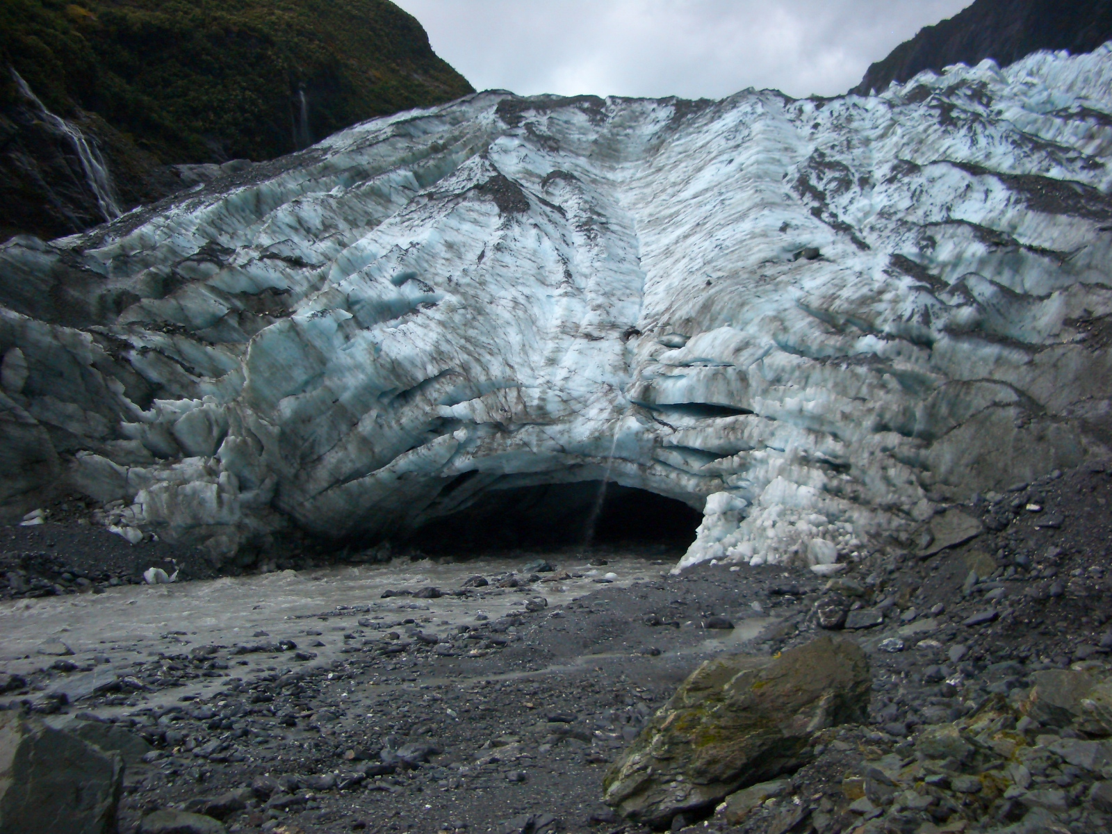 Ice cave entrance to Franz Josef Glacier, New Zealand. NOT Fox Glacier as erroneously stated.